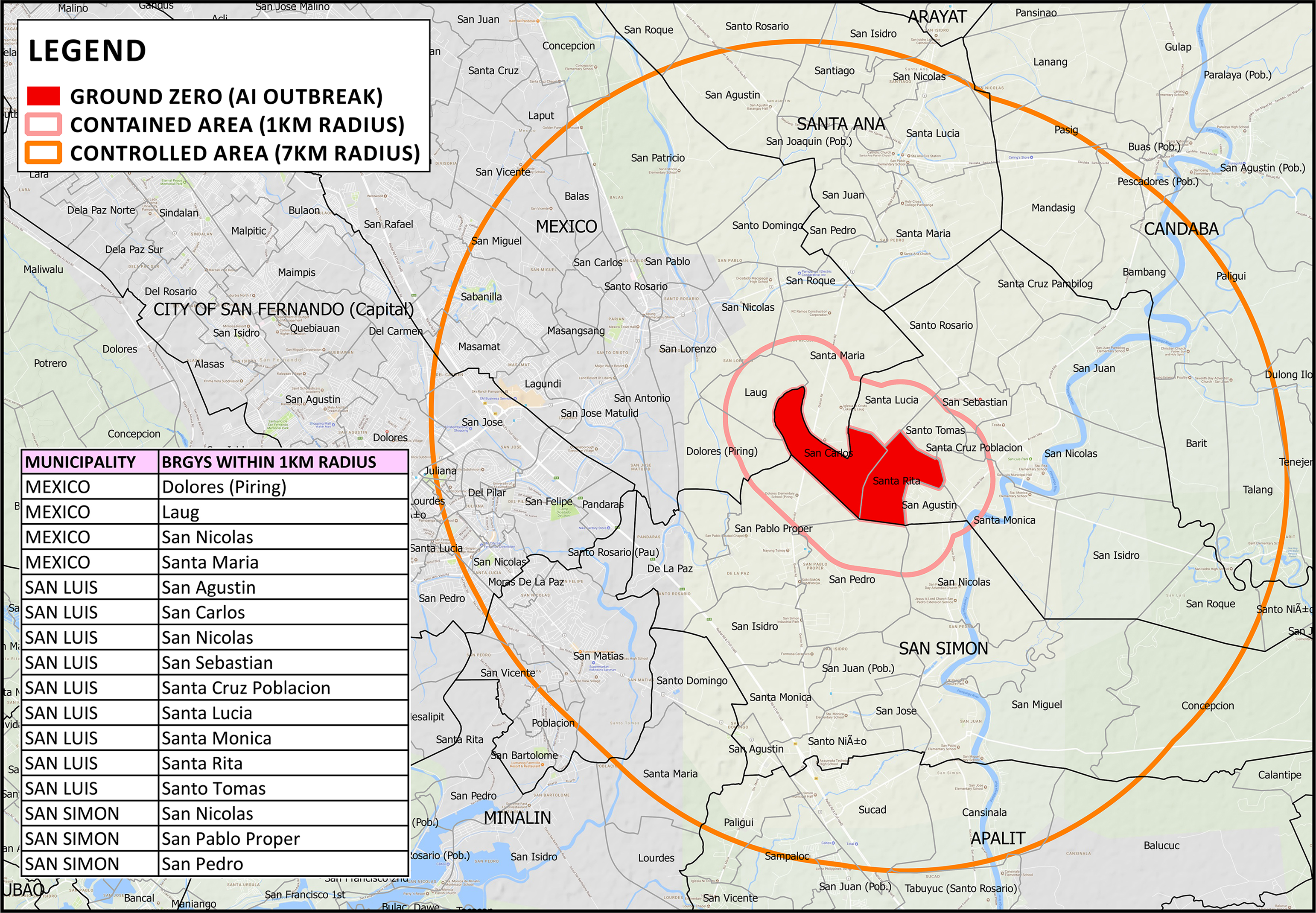 Map of depicting 7-km radius "Controlled Area" and 1-km "Contained Area" from the ground zero of the avian influenza outbreak affecting the barangays of San Carlos and Santa Rita in San Luis, Pampanga.